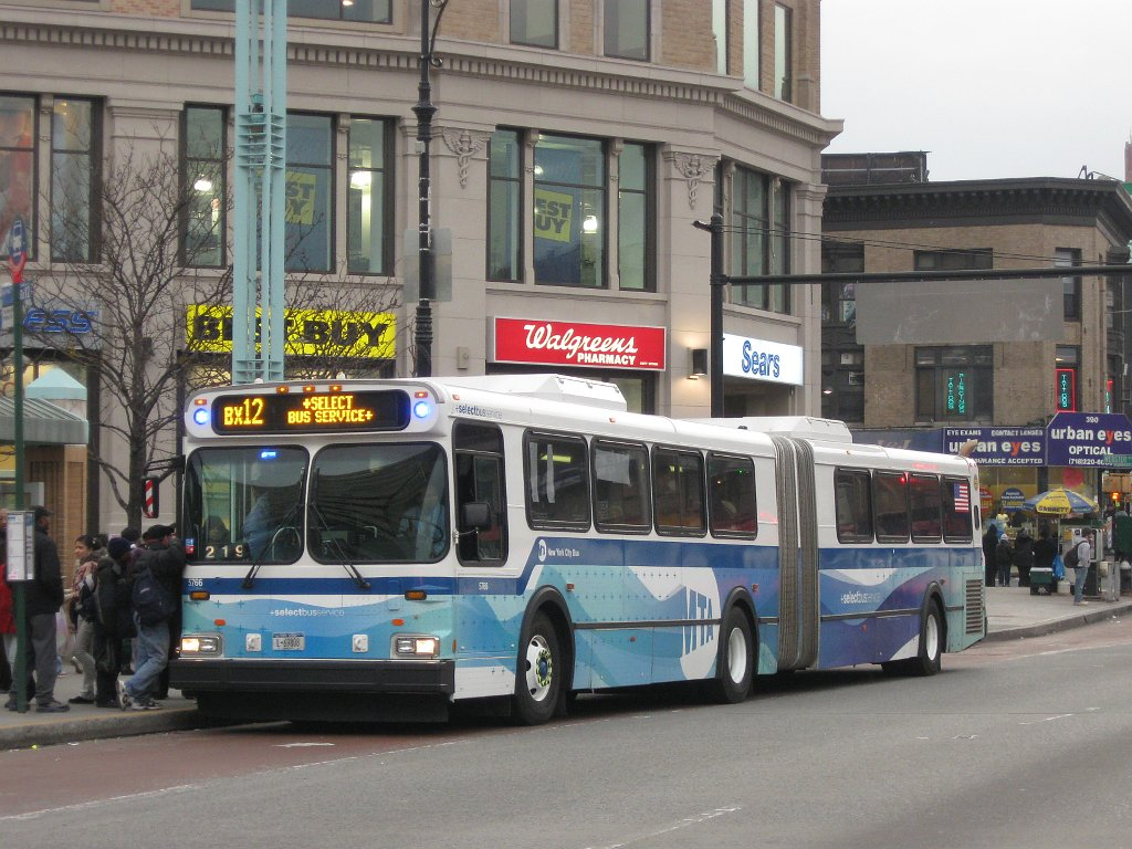 MTA New York City Bus #5766, wrapped for the Bx12 Select Bus Service operation, boards customers at Fordham Plaza. The flashing blue lights on either side of the destination sign and in the windshield are part of the service, distinguishing a bus operated in proof-of-payment service from a bus in regular service.